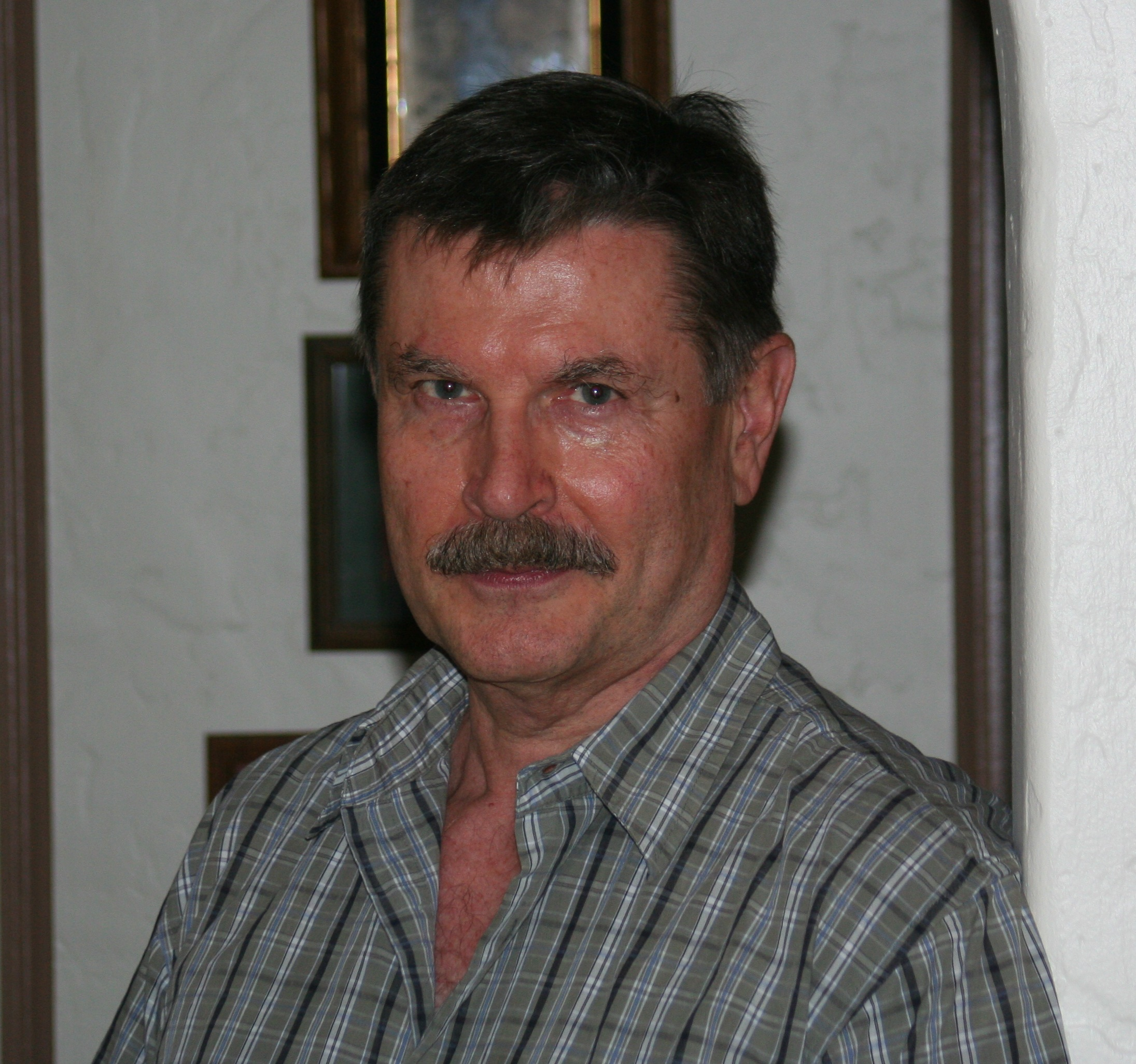 Photo of Clifton Snider